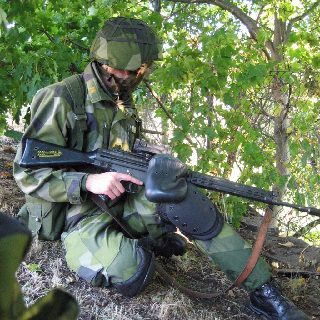 A swedish guardsman with an Ak 4B assault rifle.